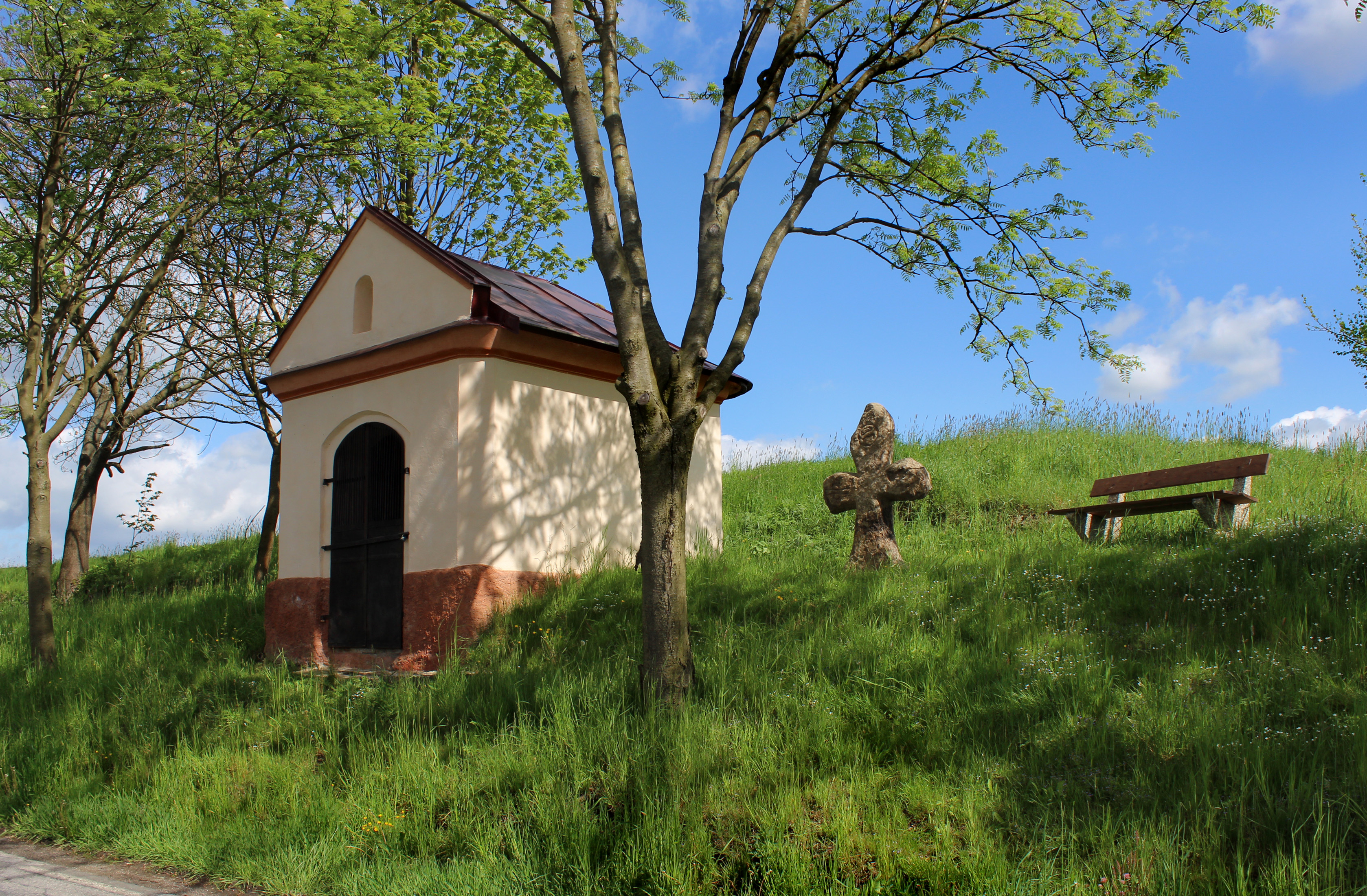 Věžnice village, Czech Republic